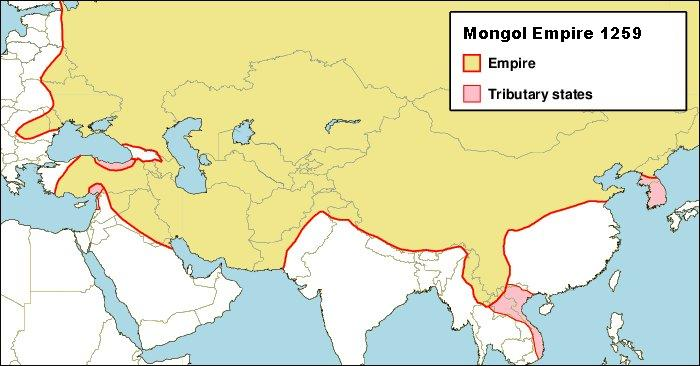 Extent of the Mongol Empire, 1259